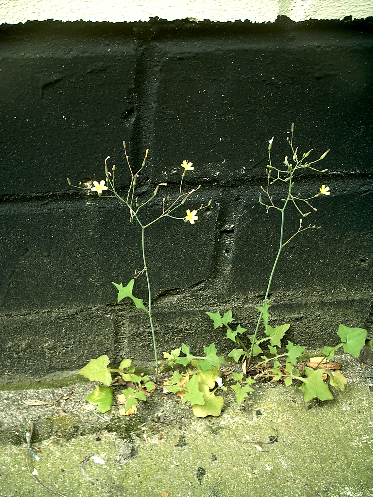 Mycelis muralis, complete plant (taken at home in Germany 27th June 2006)